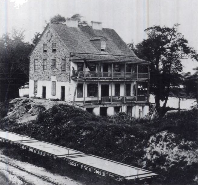 The residence of the innkeeper of Gray's Ferry Inn south of Philadelphia, Pennsylvania, with a piazza added about ca. 1792. In the foreground are flatcars marked for the Philadelphia, Wilmington, and Baltimore Railroad, which built the first permanent bridge at the location. Photograph ca. 1870s by Robert Newell. The Library Company of Philadelphia [P.9062.791]